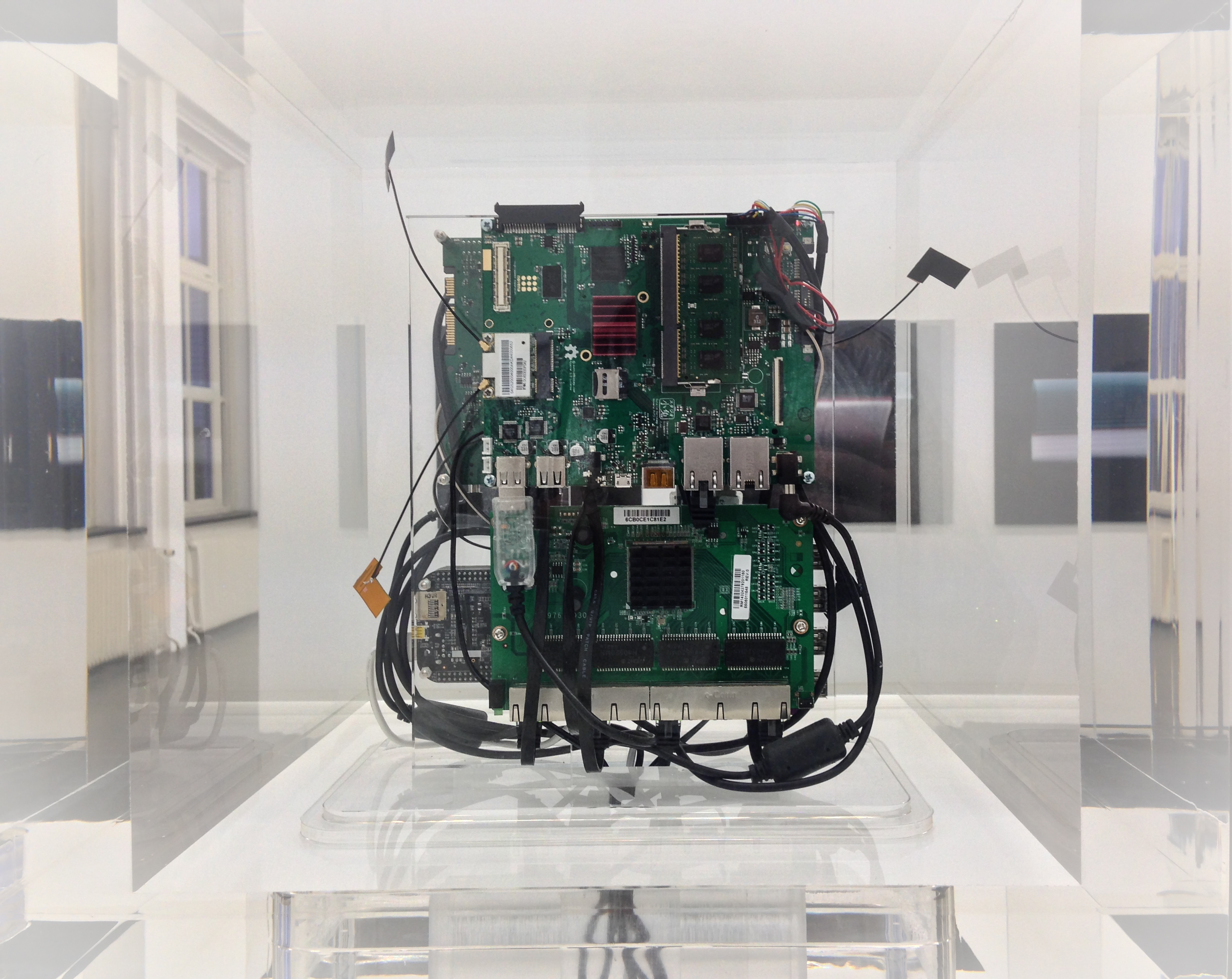 Trevor Paglen, Jacob Appelbaum Autonomy Cube Tor network Relay && Hotspot